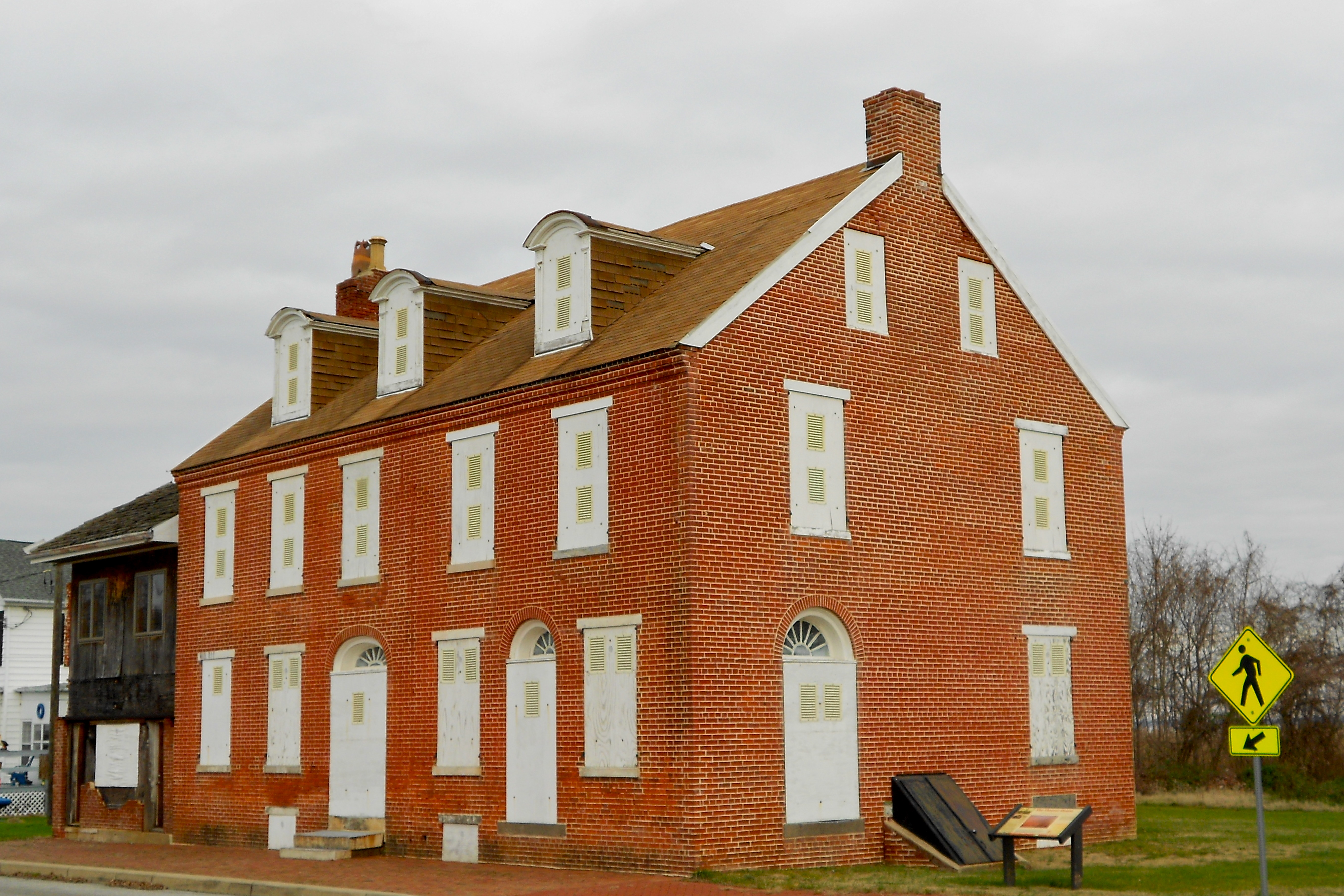 Cleaver House in Port Penn, Delaware in the Port Penn Historic District on the NRHP. Owner was a relative of the owner of the nearby house, listed separately on the NRHP:(Cleaver House on the NRHP since September 13, 1985. Off Biddle's Corner Rd. in Port Penn, Delaware.) No direct evidence that the Beav lived in either house. Coords for this one are 39.5169,-75.5764)